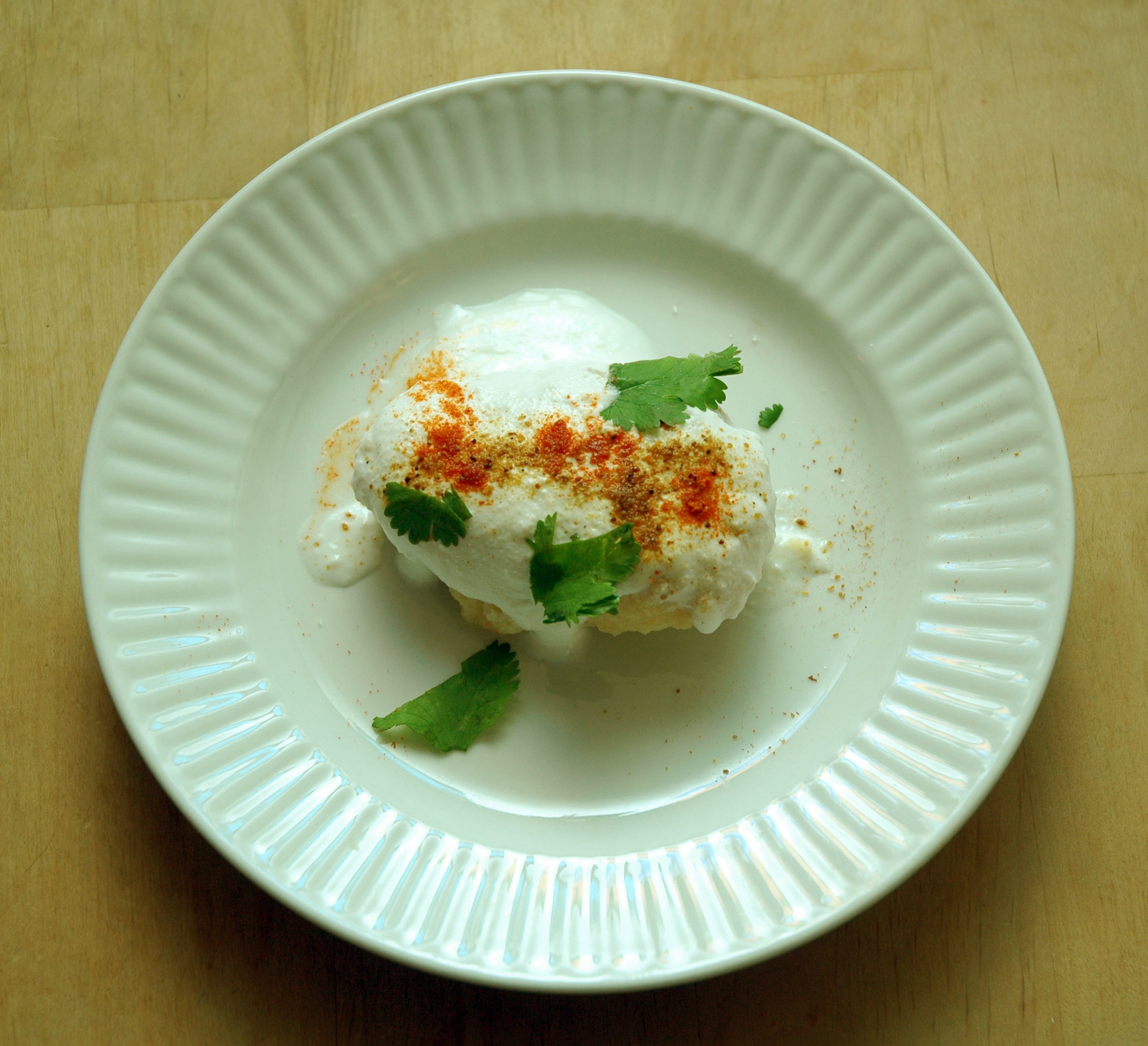 A portion of dahi vada with chili powder, chaat masala, and coriander leaves.